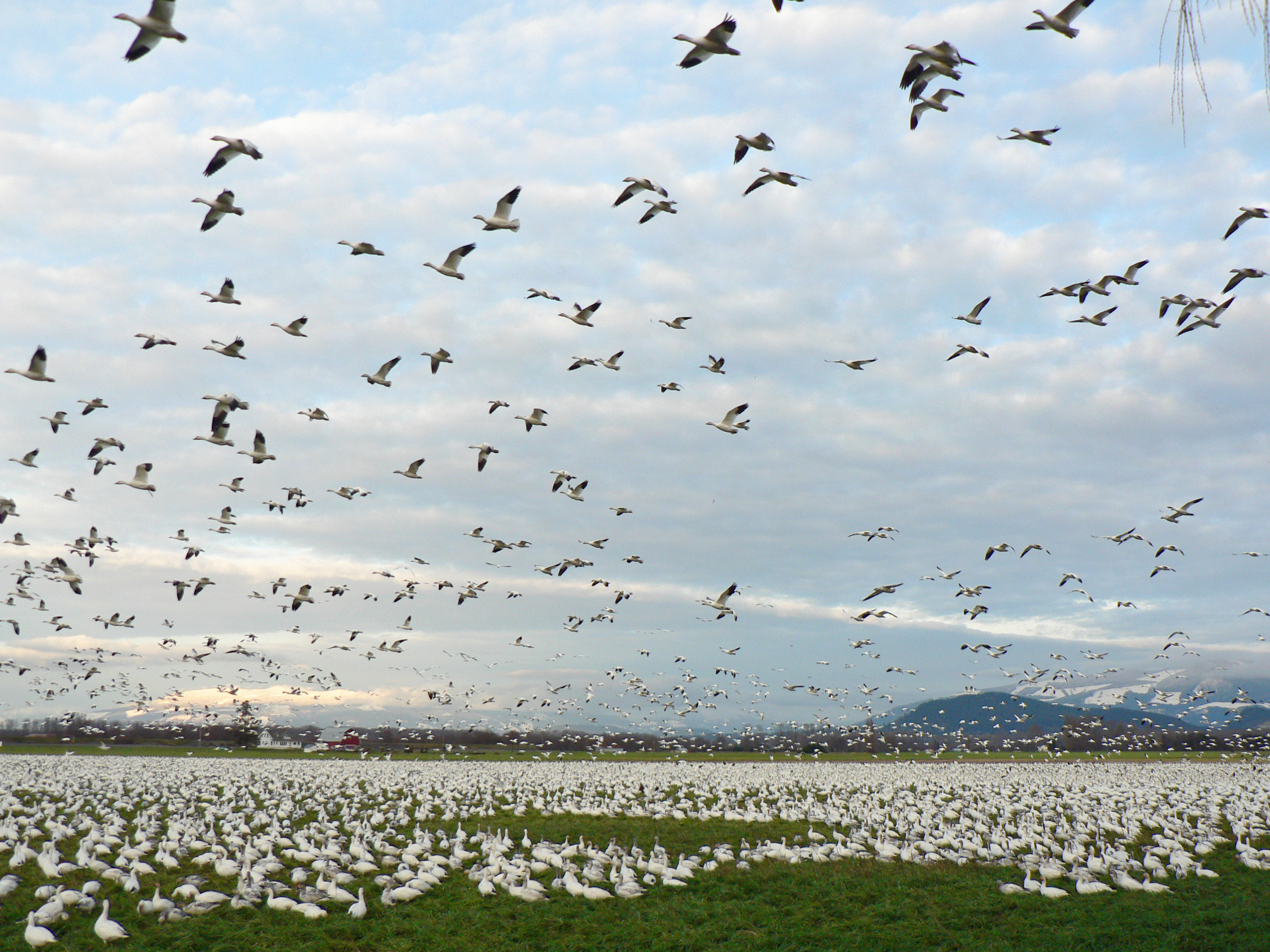 Lesser Snow Goose